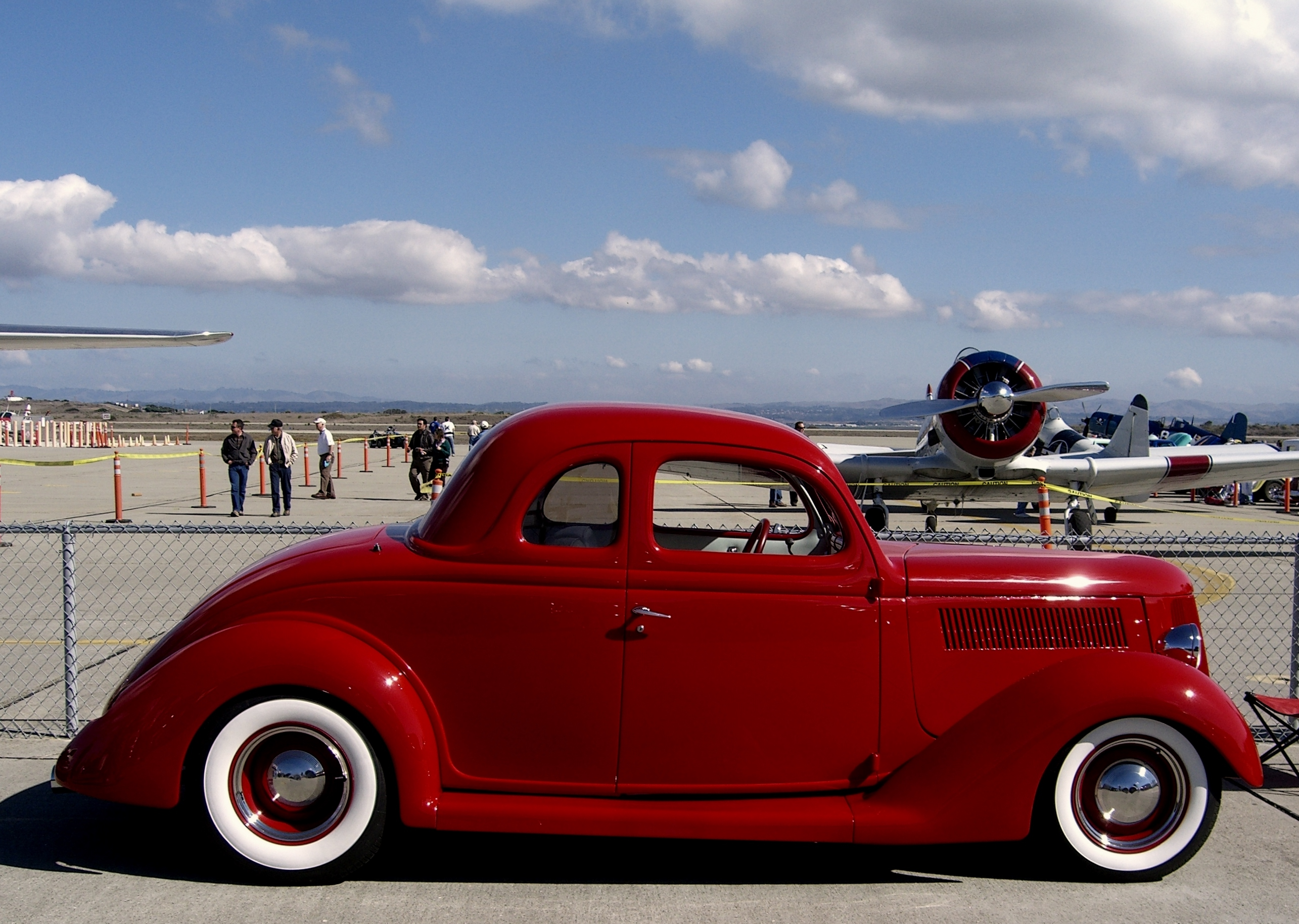 1936 Ford Model 68 770 coupe, mildly customized